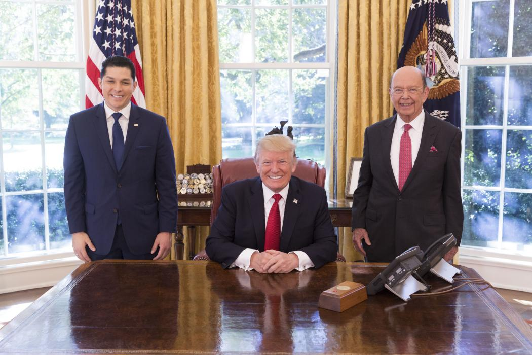 (left to right) MBDA Director Chris Garcia, President Donald Trump, and Secretary of Commerce Wilbur Ross in the Oval Office